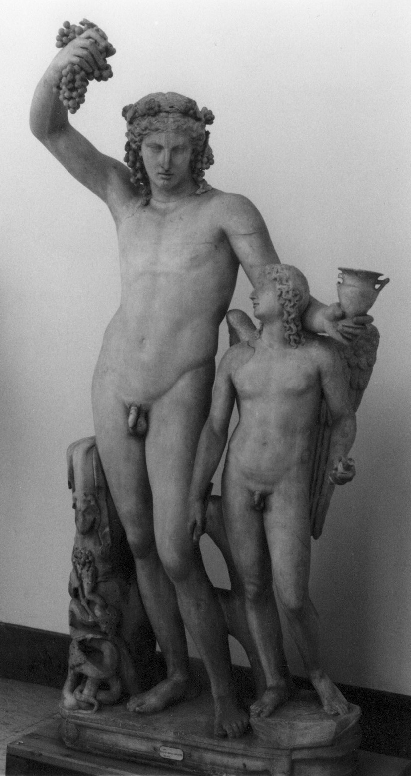 Dionysus and Eros, Naples Archeological Museum.